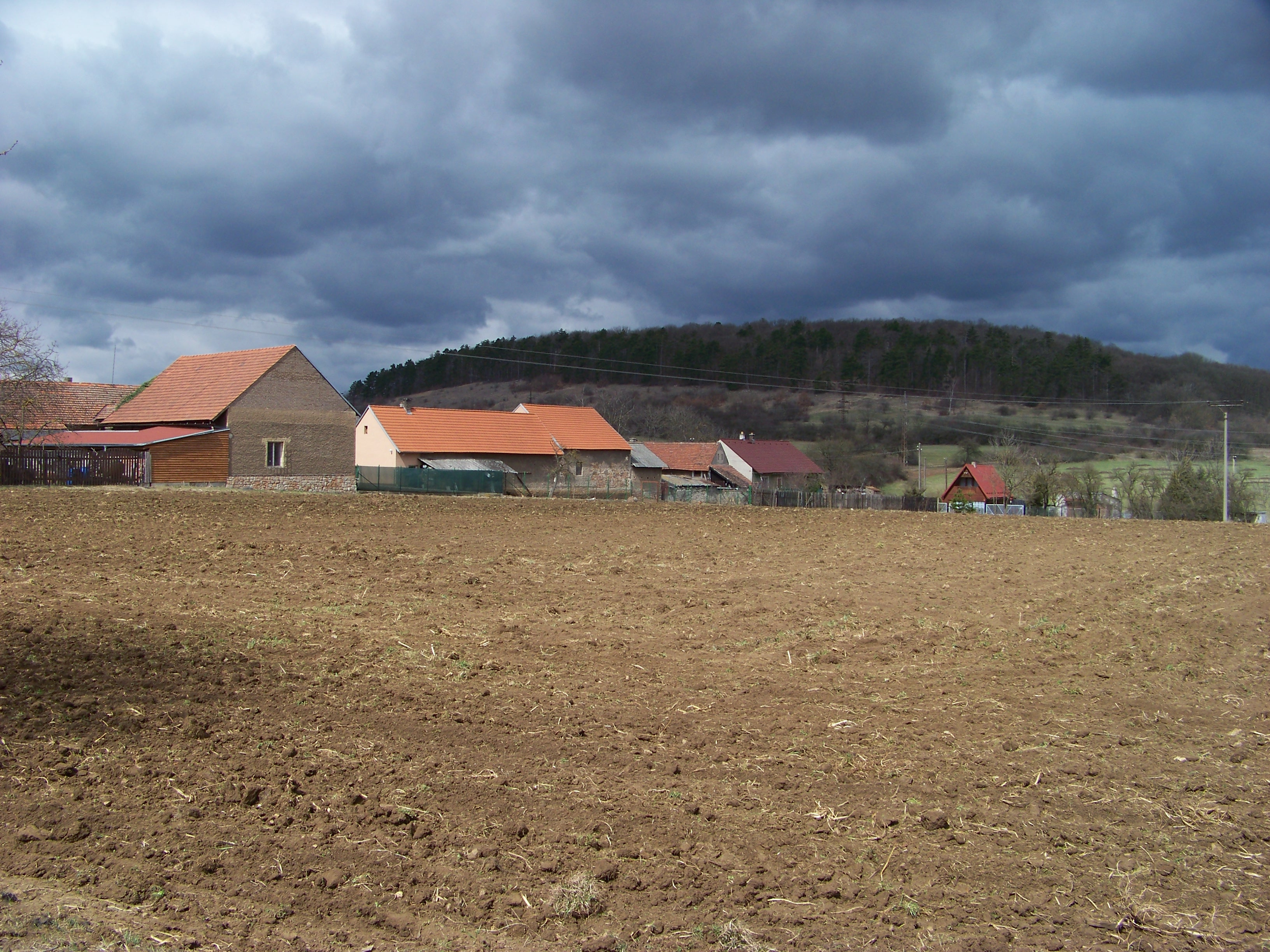 Měňany-Tobolka, Beroun District, Central Bohemian Region, the Czech Republic. Seen from the road III/11617.